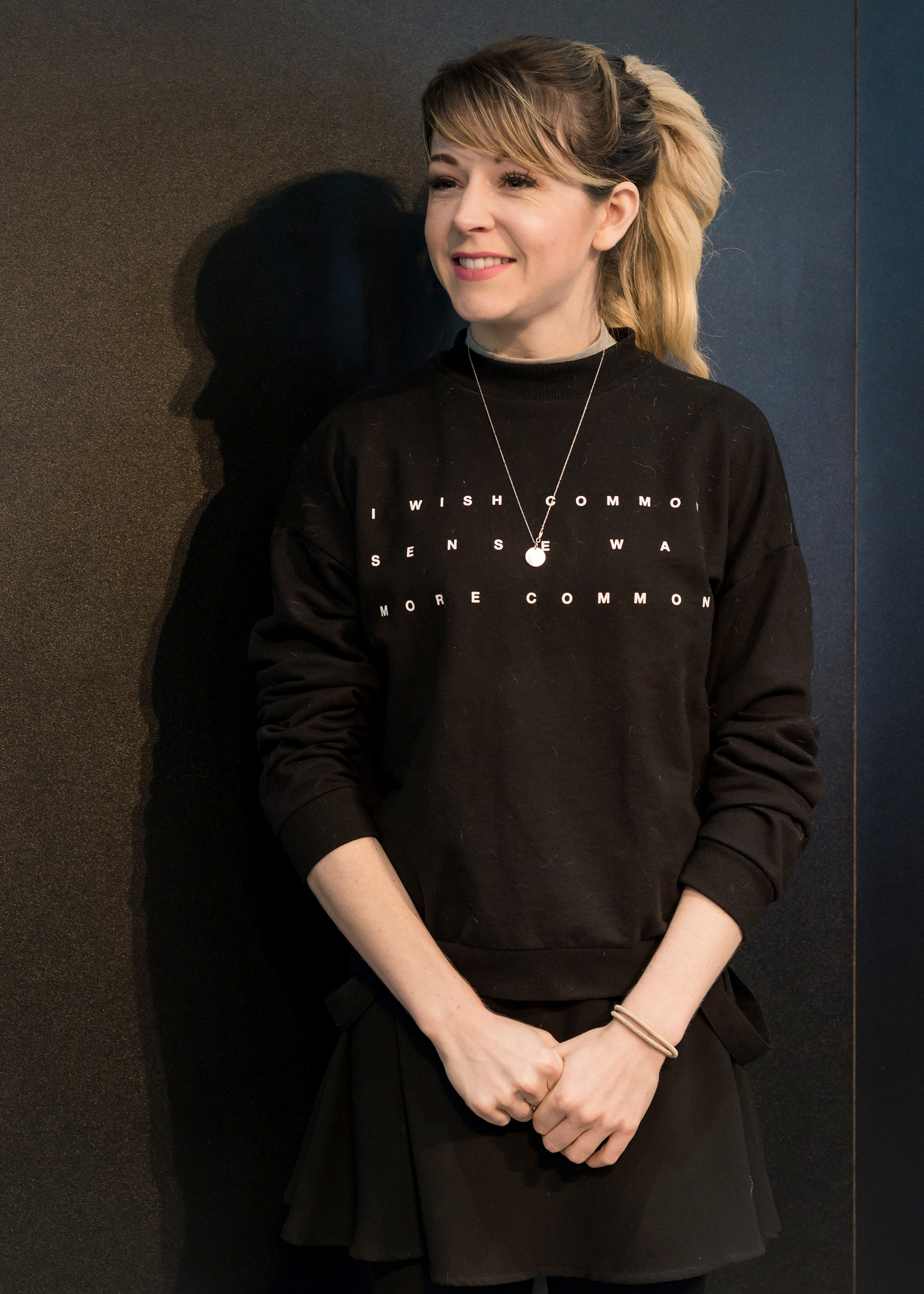 Lindsey Stirling meet & greet appearance at the Winter NAMM Show 2018 in Anaheim, California, on Friday, January 26, 2018.